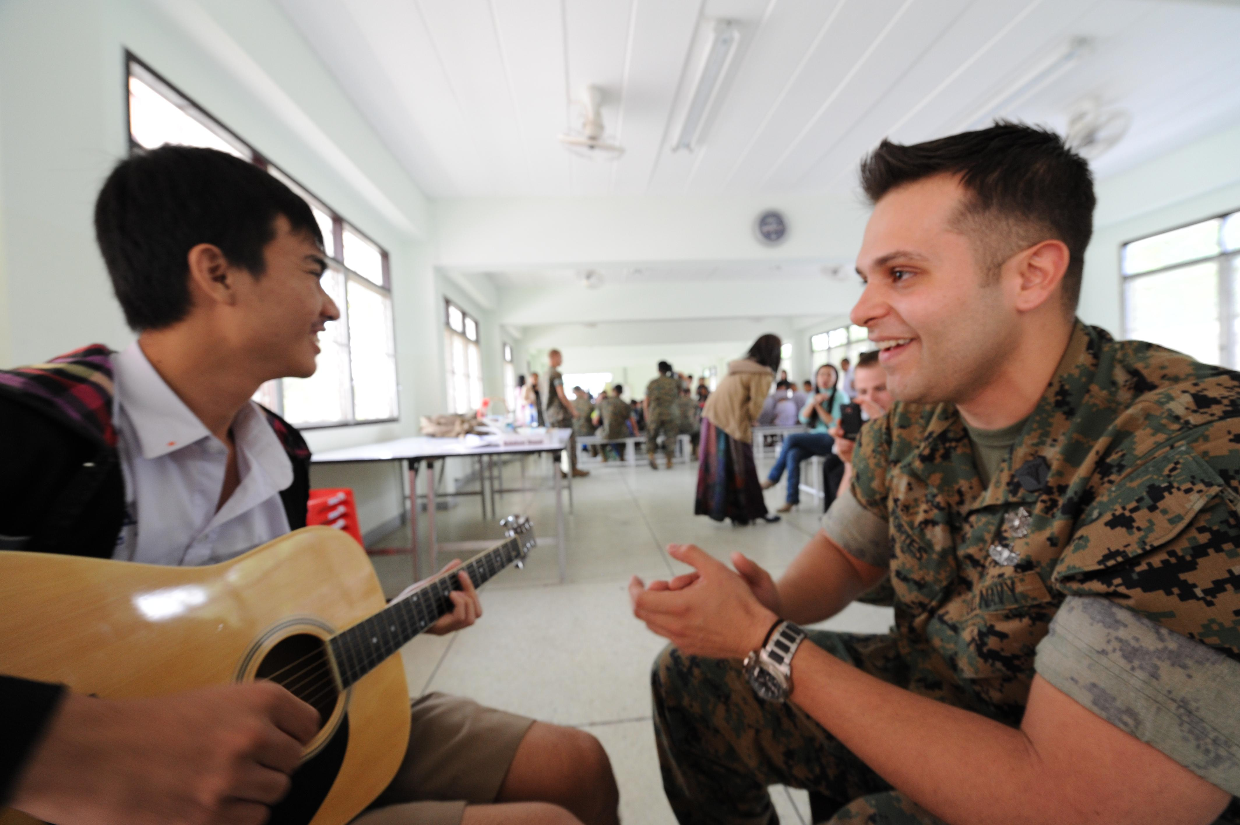 Petty Officer 2nd Class Gabriel Fortes, hospital corpsman, a New Jersey native, claps his hands in melody and excitement as he and 18-year-old Nieundorn Komloqw create a song named, "All I need Is Love," as part of the two bonding over each other's love of music during a visit to the School for the Blind Education Service Center on March 18 in Korat, Thailand, during Cope Tiger 2011, an annual, multilateral, joint field training exercise currently being conducted at Korat and Udon Thani Royal Thai Air Bases March 14 through 25. U.S. sailors and Marines of the Marine All-Weather Fighter Attack Squadron 533, Marine Corps Air Station Iwakuni, Japan, took time from the exercise to visit the school. Participants of Cope Tiger include the U.S. Air Force, the U.S. Marine Corps, the Royal Thai Air Force, Royal Thai Army, and the Republic of Singapore Air Force.